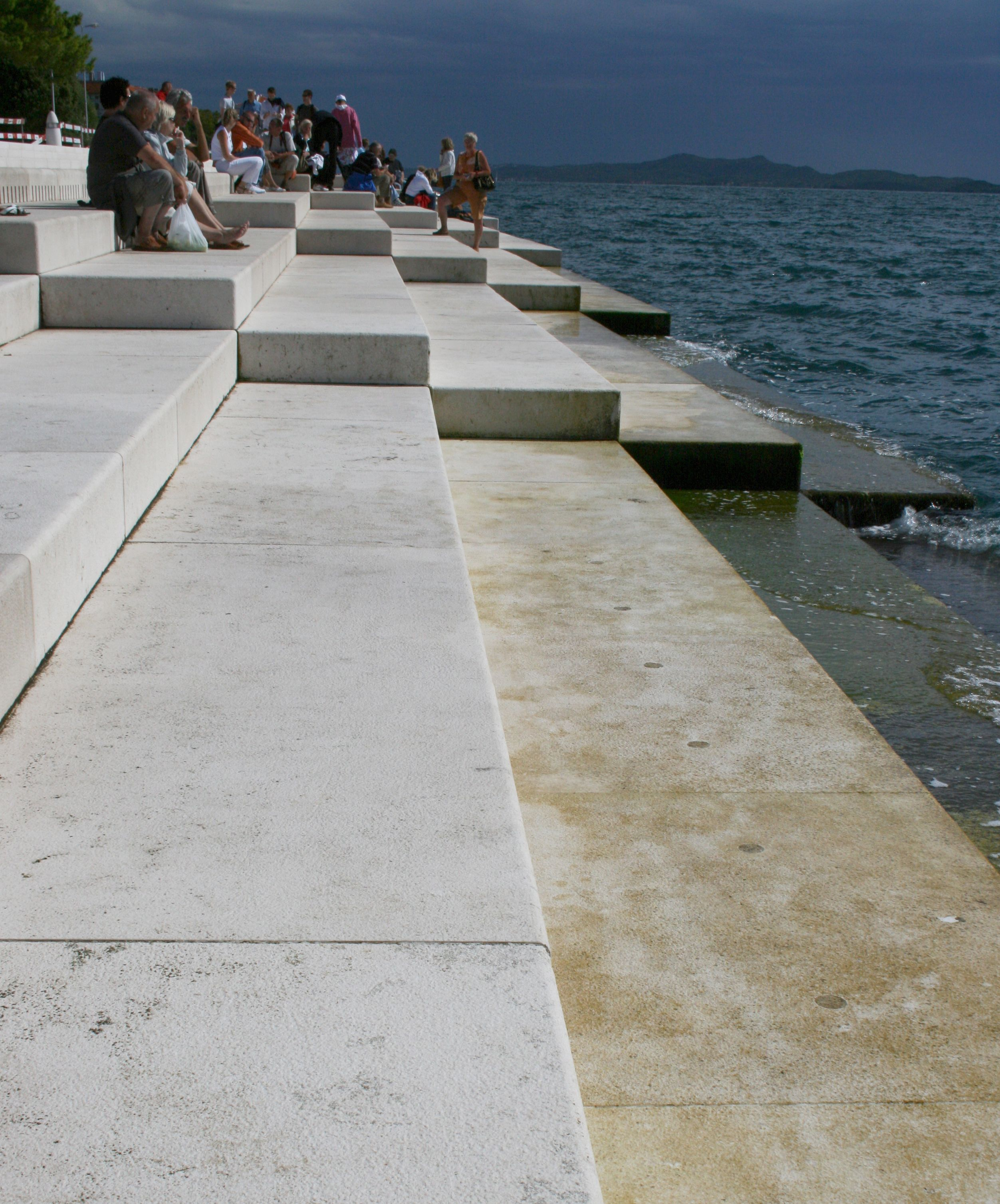 It's a Bagpuss thing. For anyone unaware of the Sea Organ, it is the only one in the world, it's an organ, and it's played by the sea. Incidentally, the music floats out from the holes beneath the steps and is out of this world.